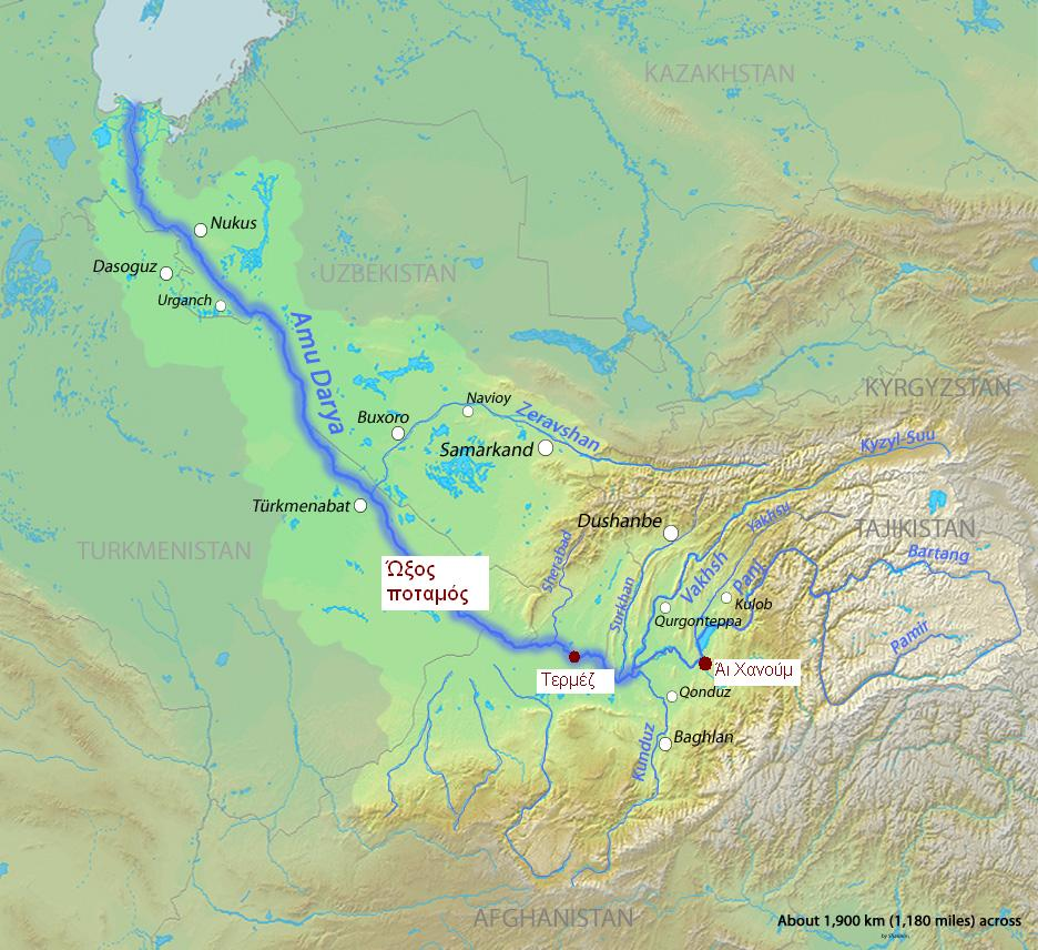 Possible positions of Alexandria Oxiana. Today the most likely position is considered to be Ai-Khanoum. The city of Termez was considered to be Alexandria Oxiana in the past